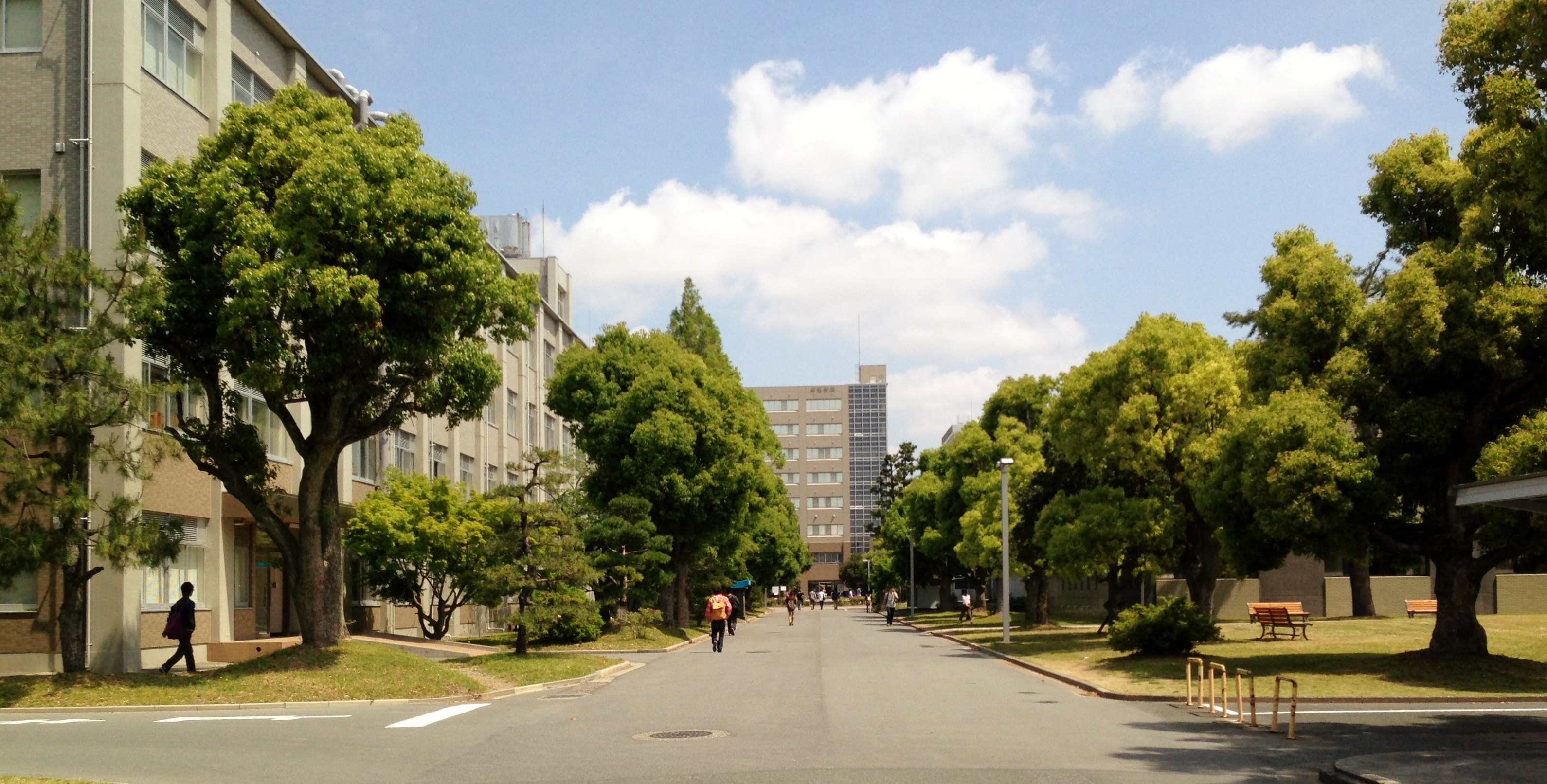 Shizudai